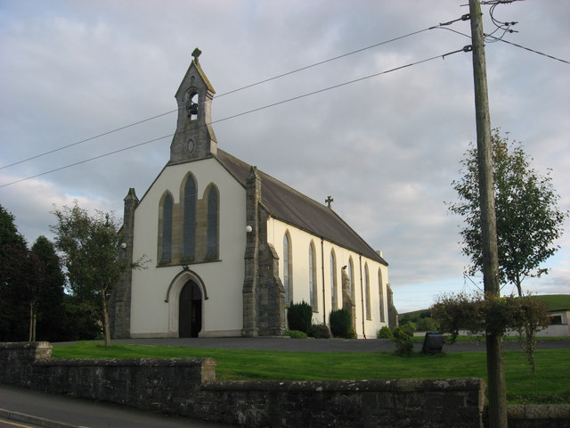 All Saints', Doohamlet, Co. Monaghan All Saints' R.C. Church, built 1857-1861 and dedicated on 7 May 1861